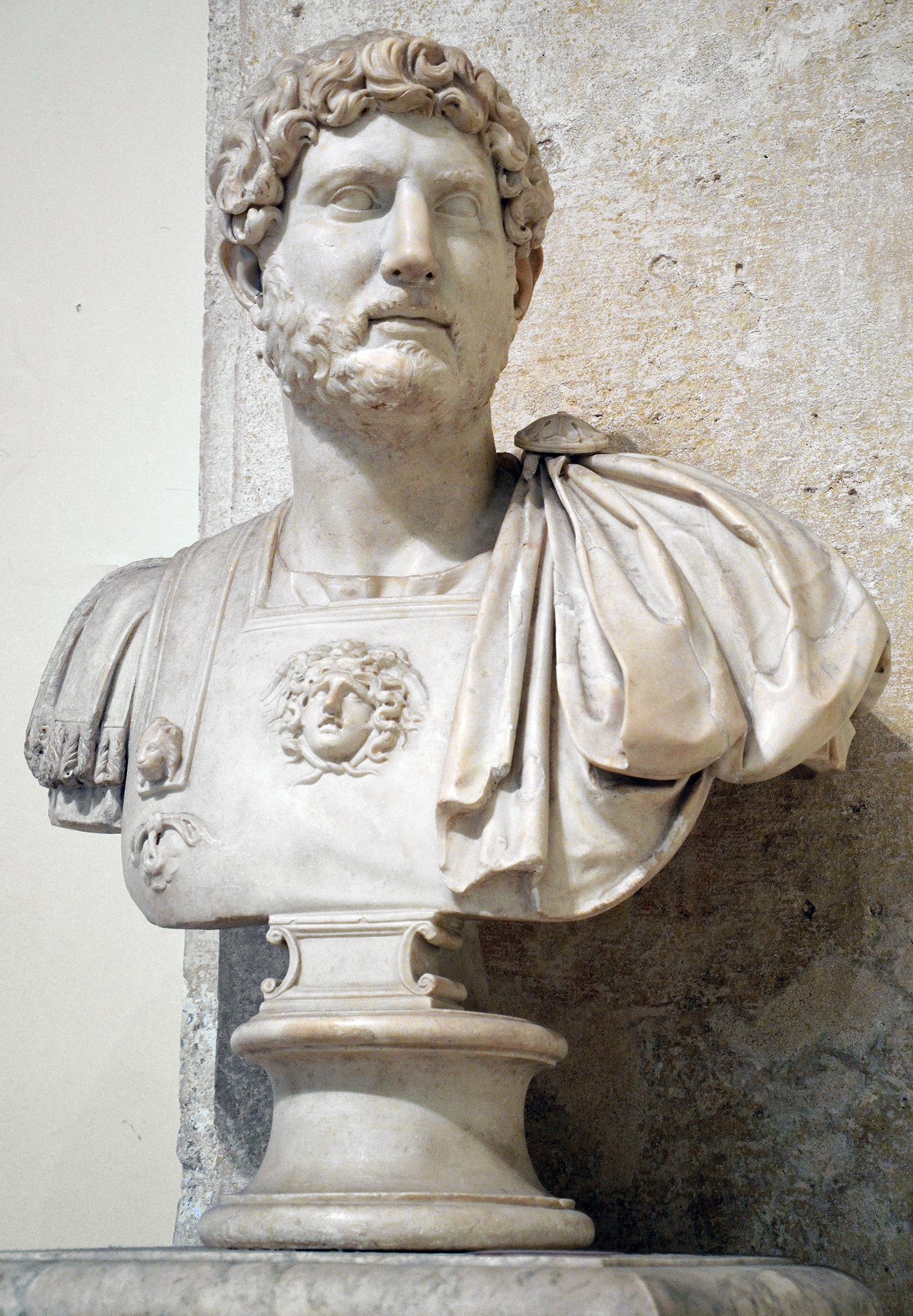 Bust of Hadrian (76 – 138), emperor